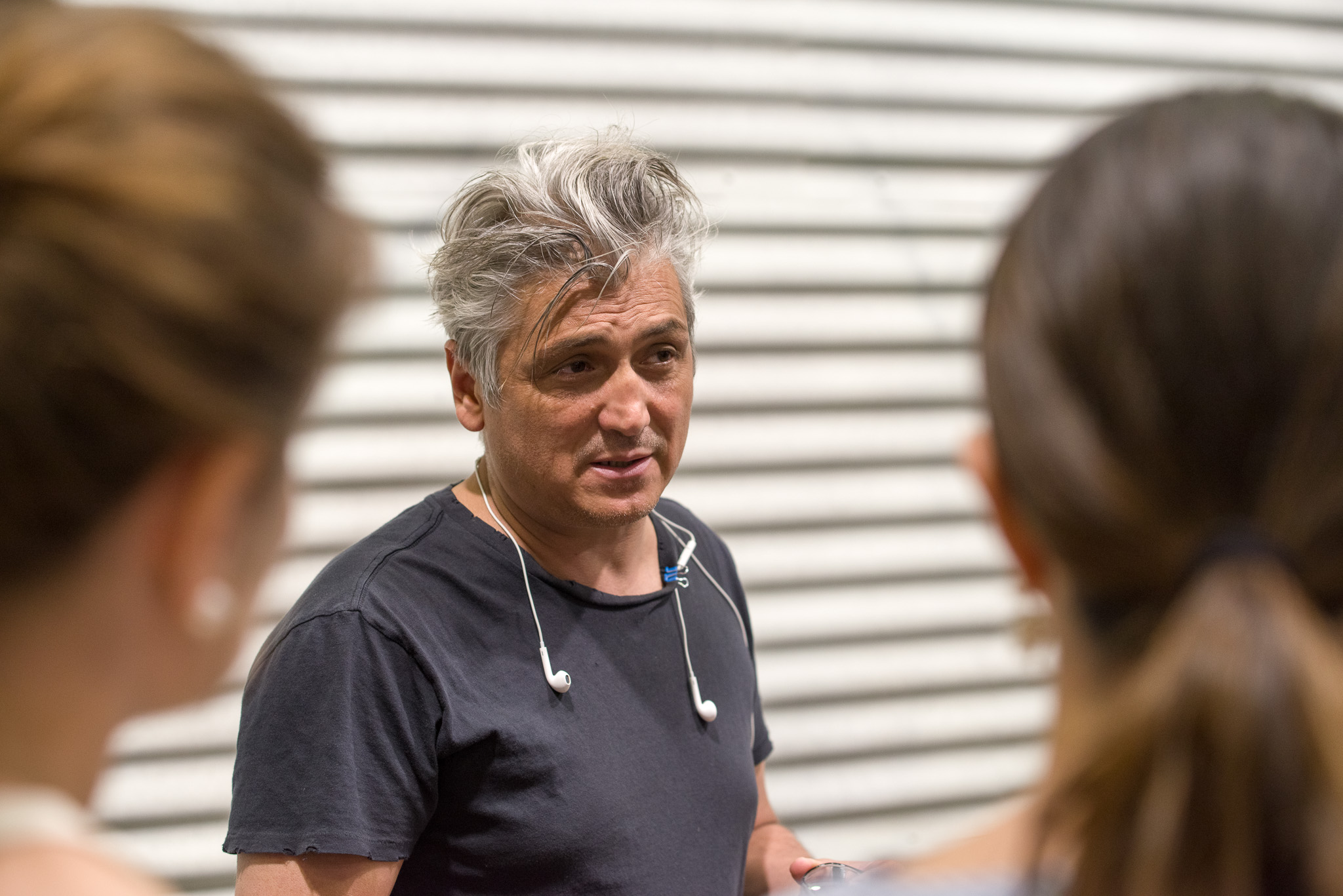 Portrait of Sislej Xhafa in front of students during the Art Basel 2019 exhibition